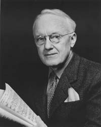 Photo of Randall Thompson